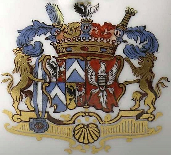 Wedding arms Brühl / Kolowrat-Krakowsky